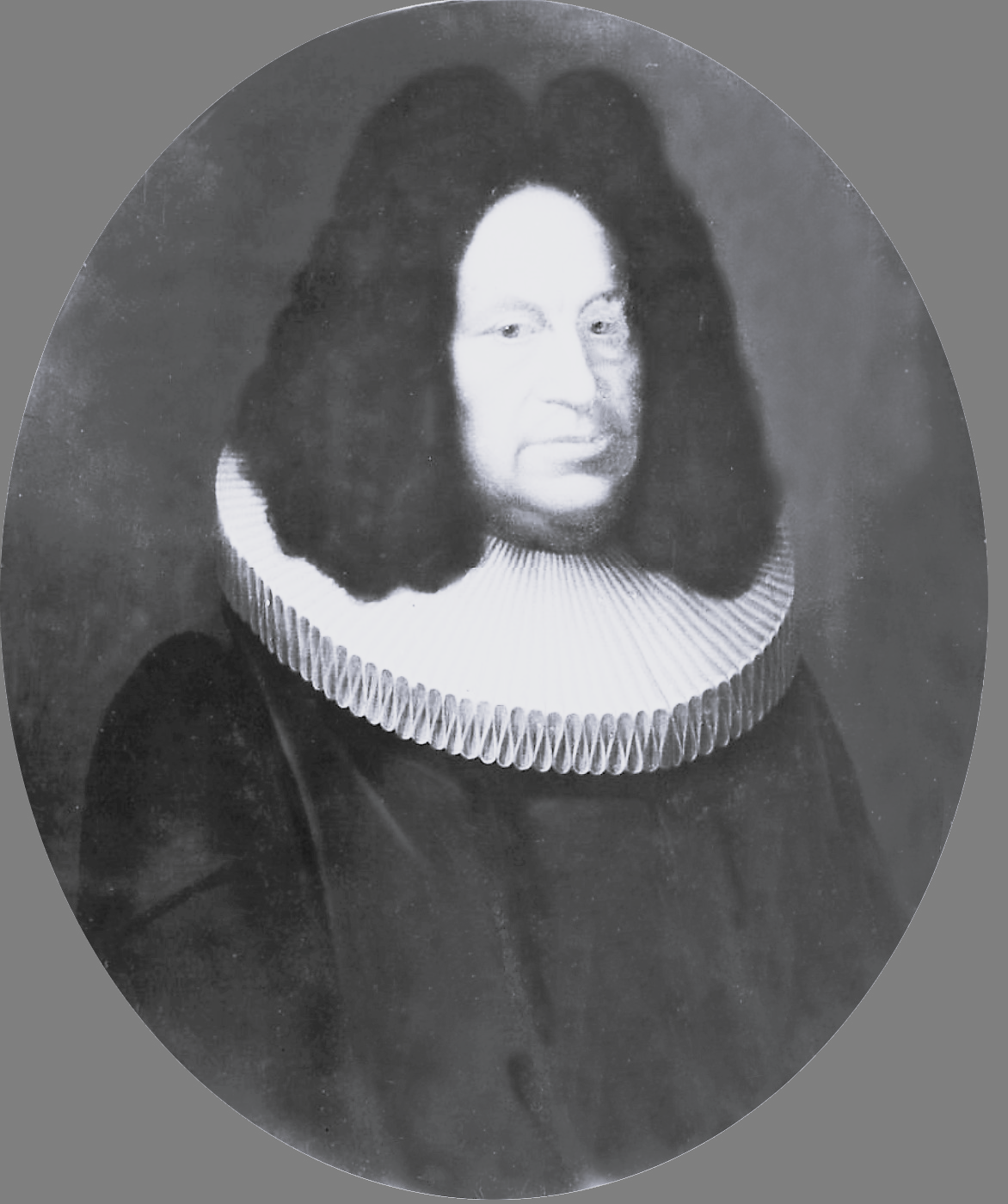 Jacob von Melle c. 1743. Portrait at his epitaph in the Marienkirche (1942 destroyed) Painting by Jürgen Matthias von der Hude (1690-1751).